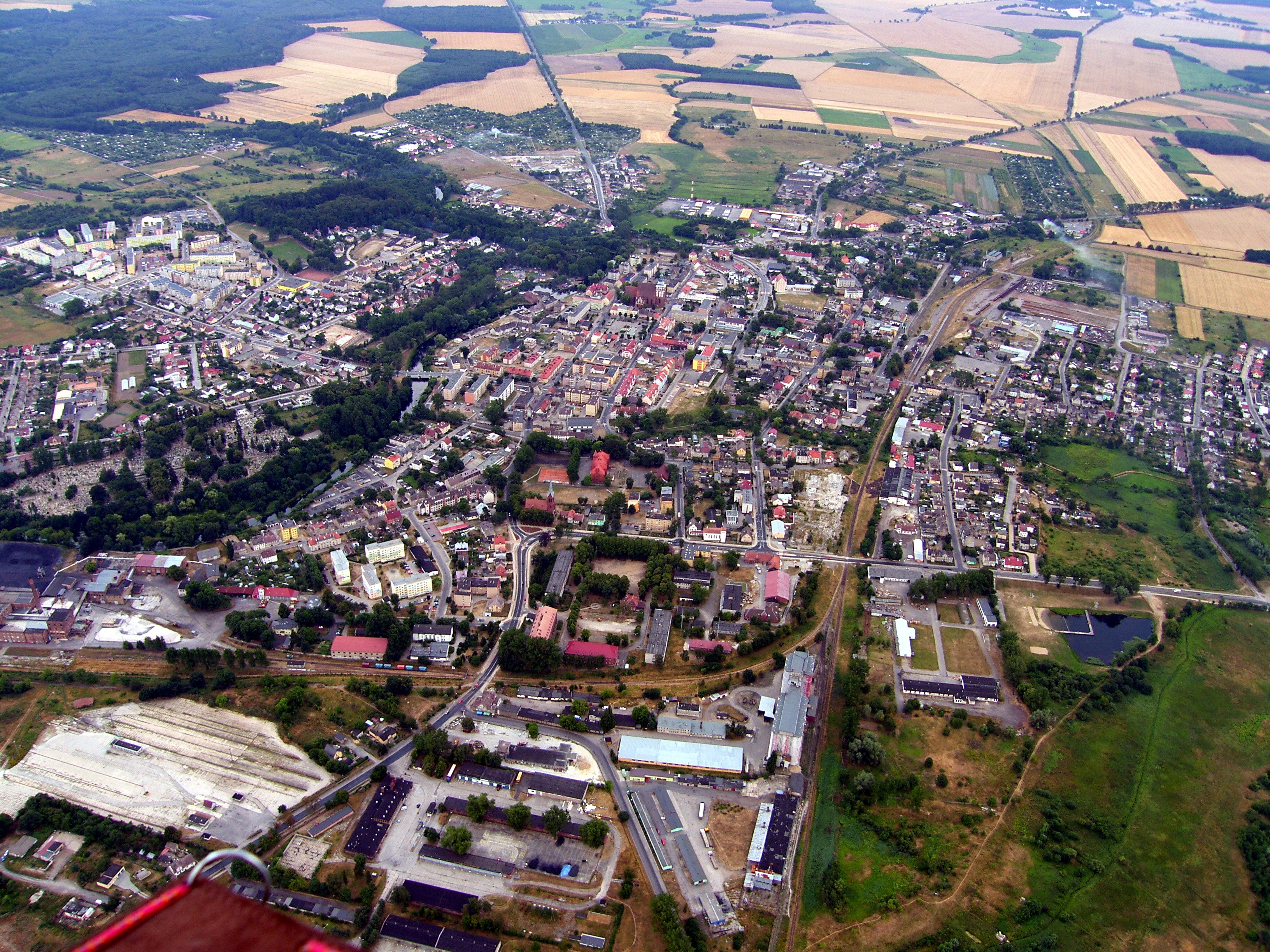 Bird's-eye view on Gryfice (Poland)